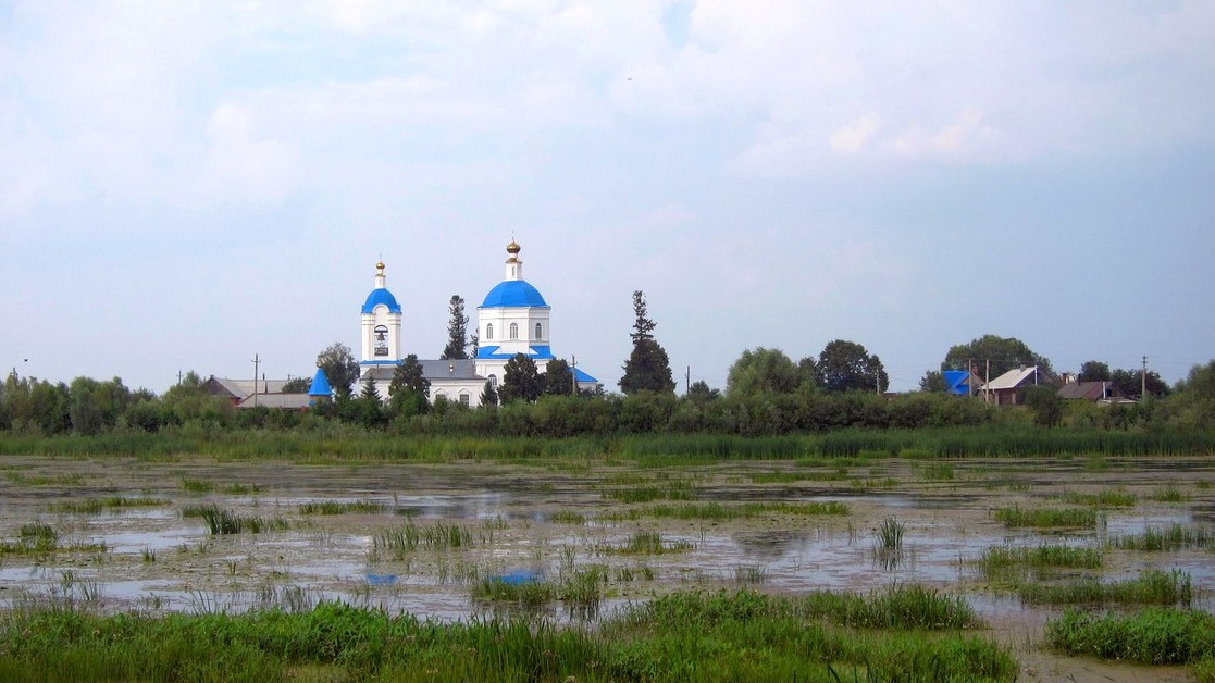 Church of Nativity of Most Holy Mother of God, Sumki village, Mari El Republic, 2013